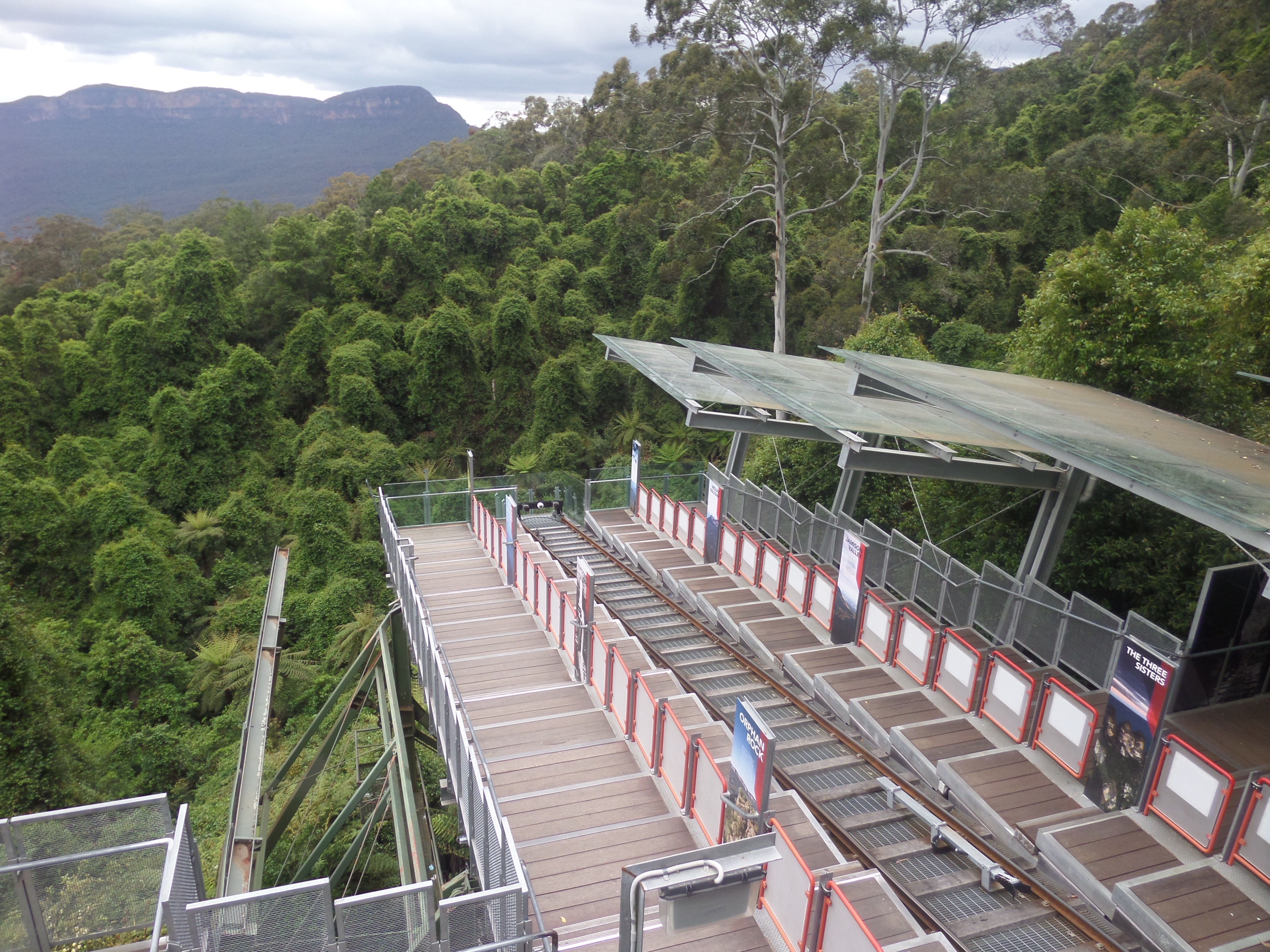 Railway station in Scenic World, Blue Mountains, Katoomba, NSW, Australia